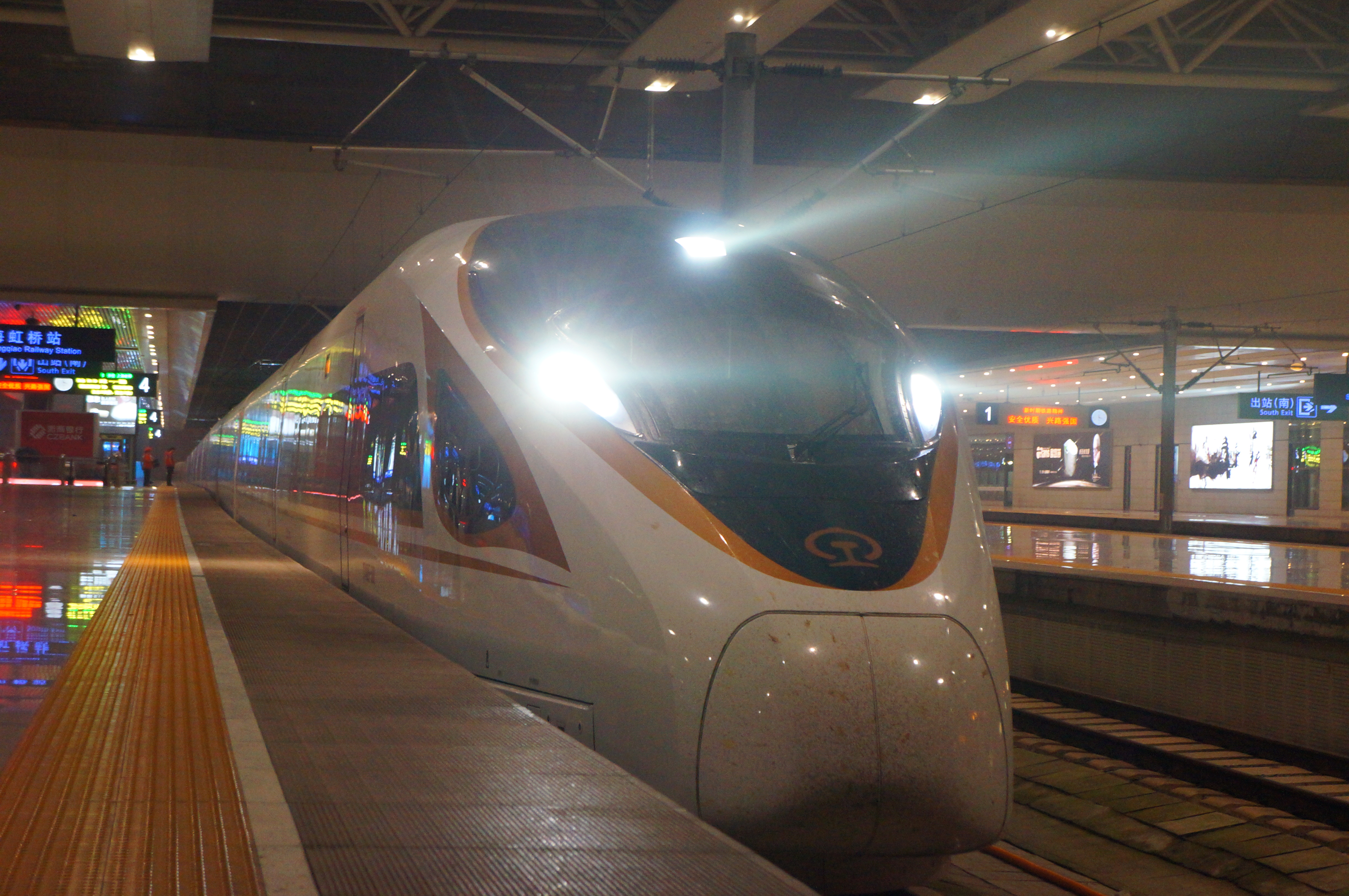 201706 G155 (operated by CR400BF-5001/5002) enters into Shanghai Hongqiao Station with 15-min delay. No journalists, no railfans onboard or on the platform on its second day in operation.